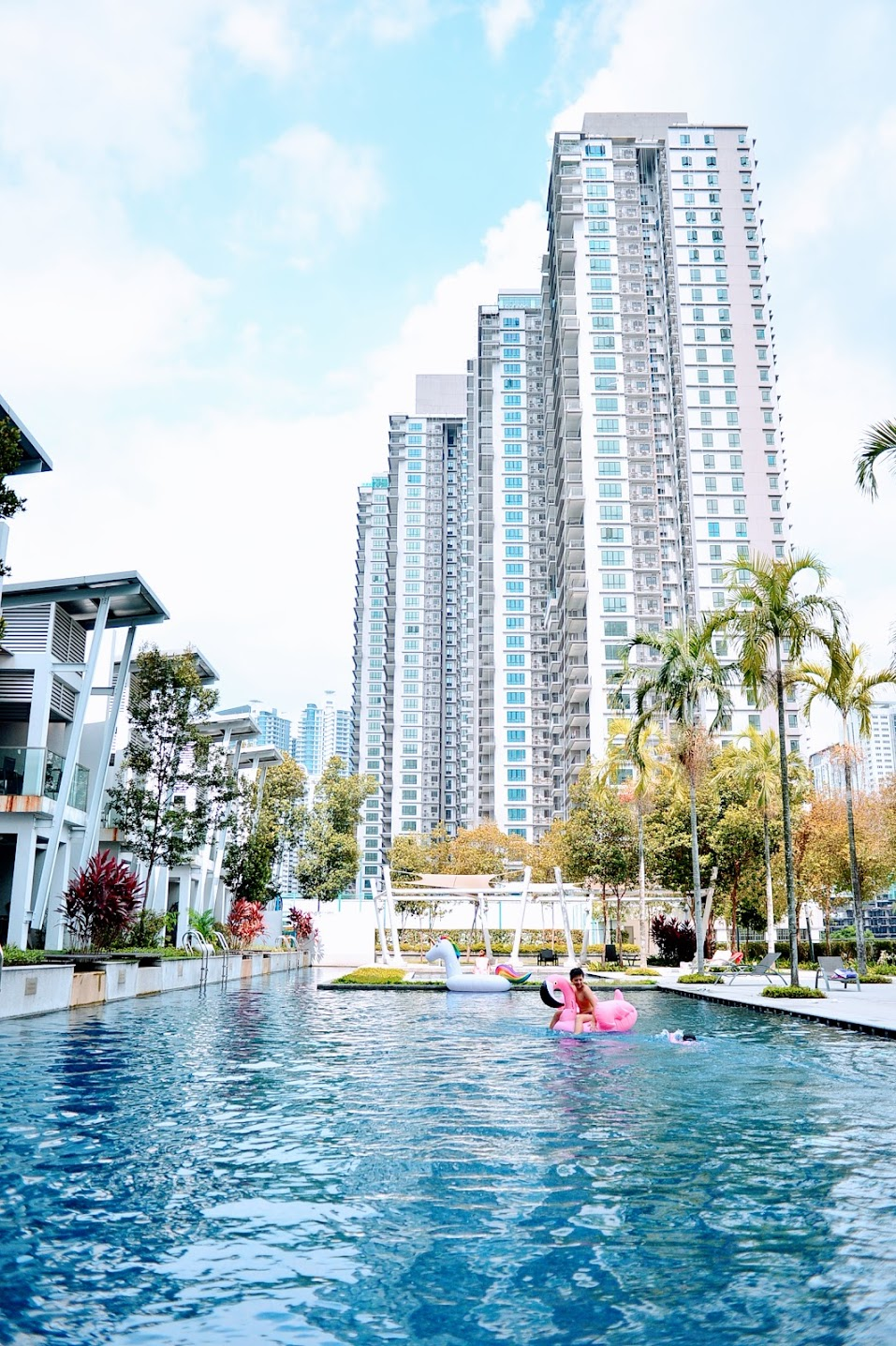 condominium of kuala lumpur